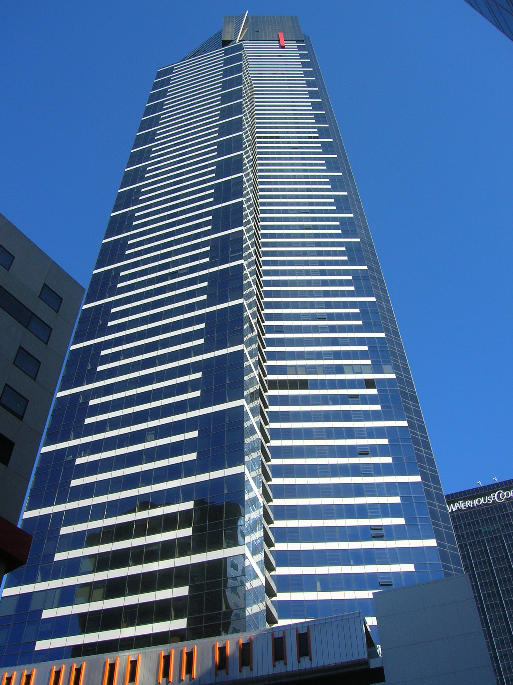 Eureka Tower is the second tallest building in Australia.